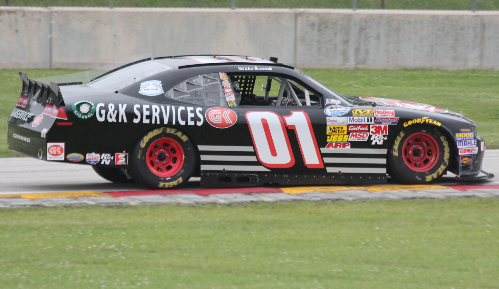 The passenger side of Landon Cassill during the 2014 Gardner Denver 200 at Road America. Taken racing in turn 13.